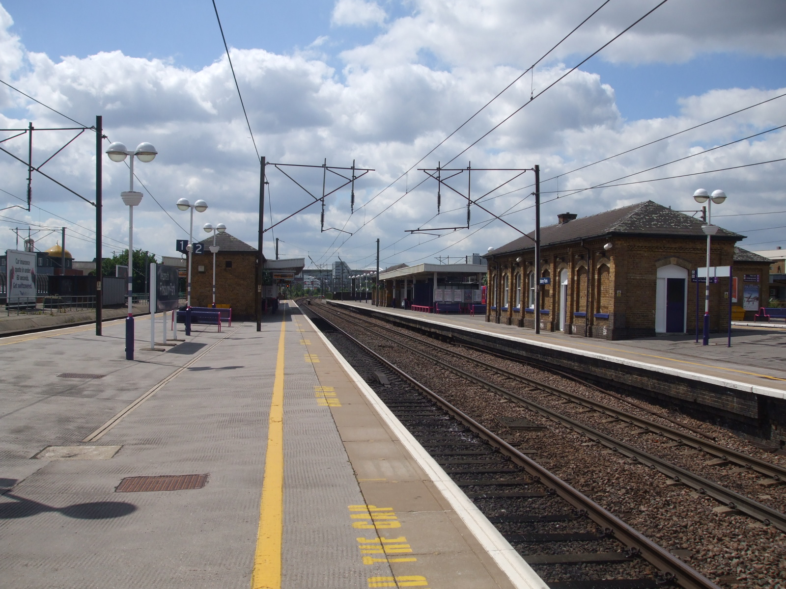 View southbound on Finsbury Park mainline station, with platforms 1 and 2 (southbound) on left and 3 and 4 (northbound) on right